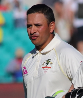 Usman Khawaja and Steve Smith during the 2nd Day of the 5th test of the 2017/18 Ashes